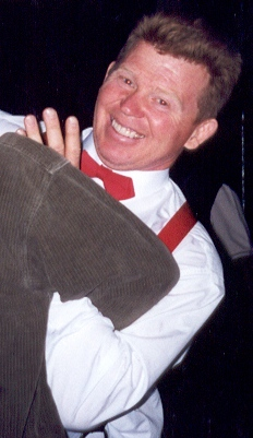 Bob Backlund in Detroit Michigan, September of 1998.